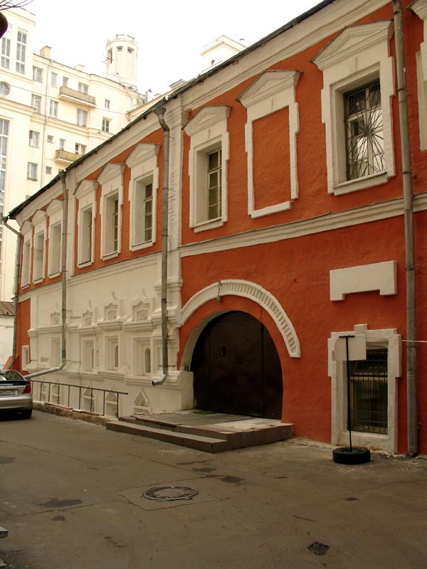 Ordynsky Tupik, 16th century, Moscow, Russia